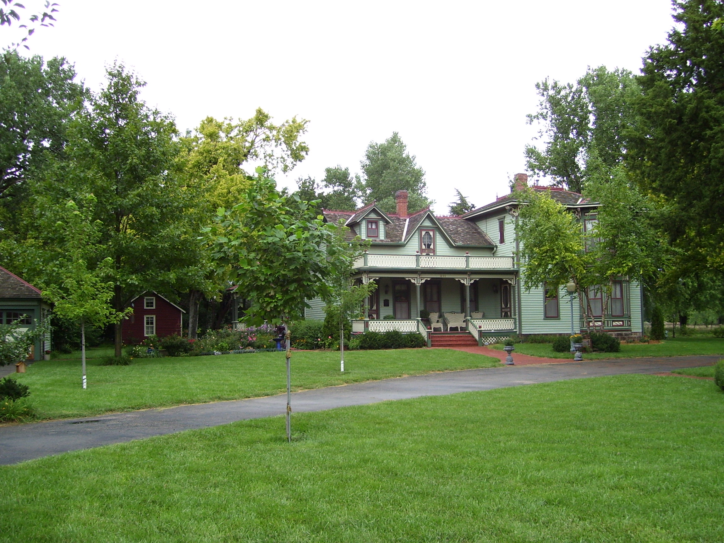 This is my 2008 photo of the Hans Hanson House in Marquette, Kansas.